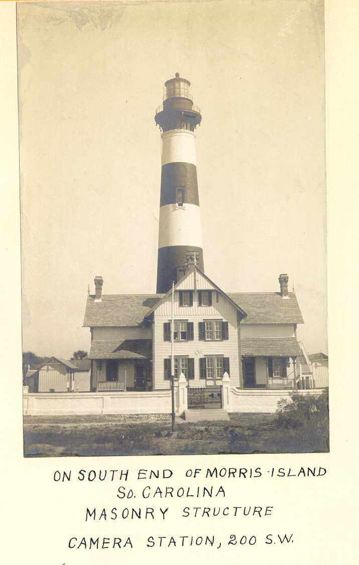 Public Domain statement here; "Charleston Light Station, S.C., Seventh District (Charleston), On South End of Morris Island So. Carolina, Masonry Structure, Camera Station 200 S.W., filed 1-14-15."; 10 June 1914; photographer unknown.